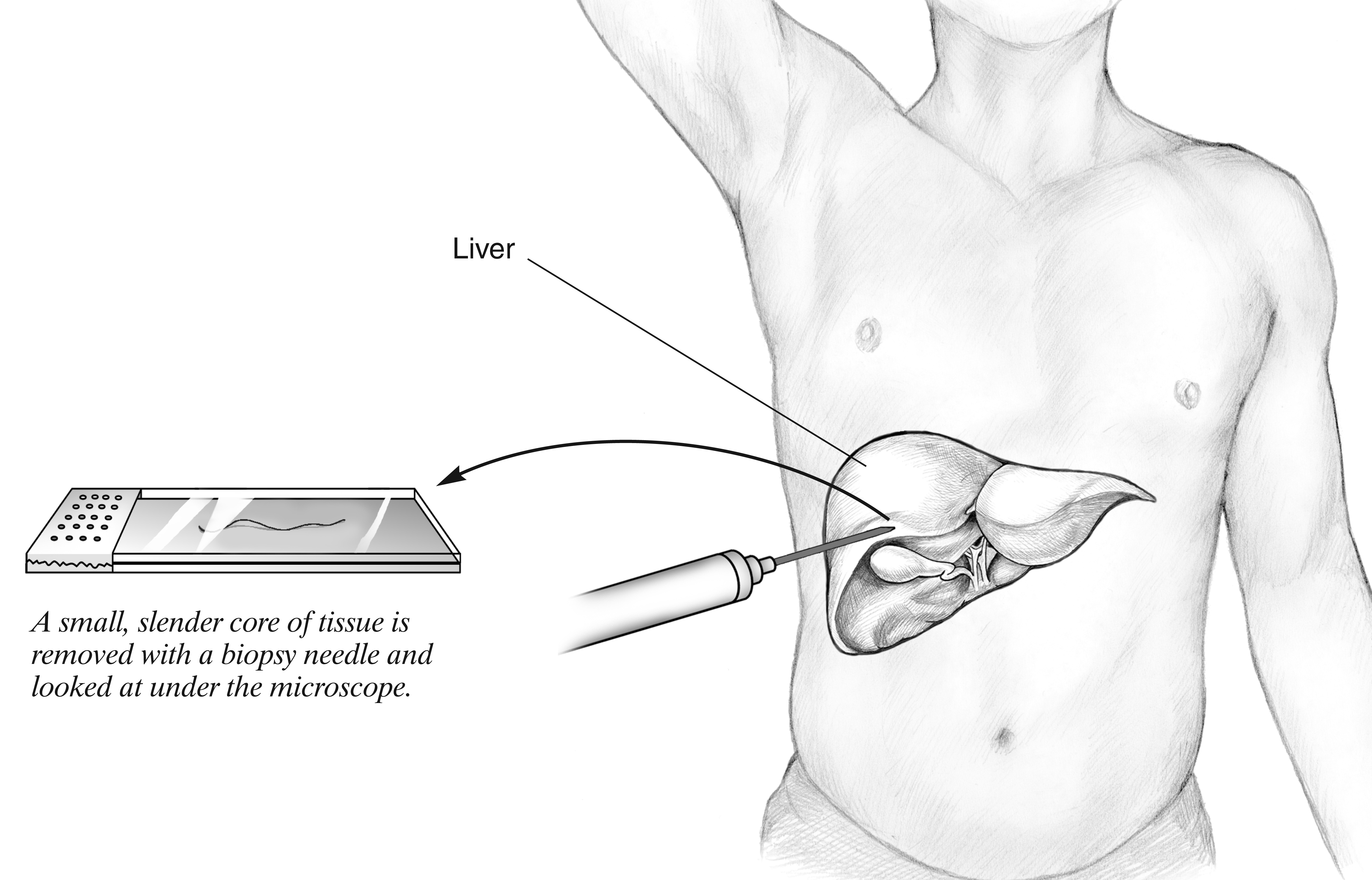 Human liver biopsy with a slide of tissue sample